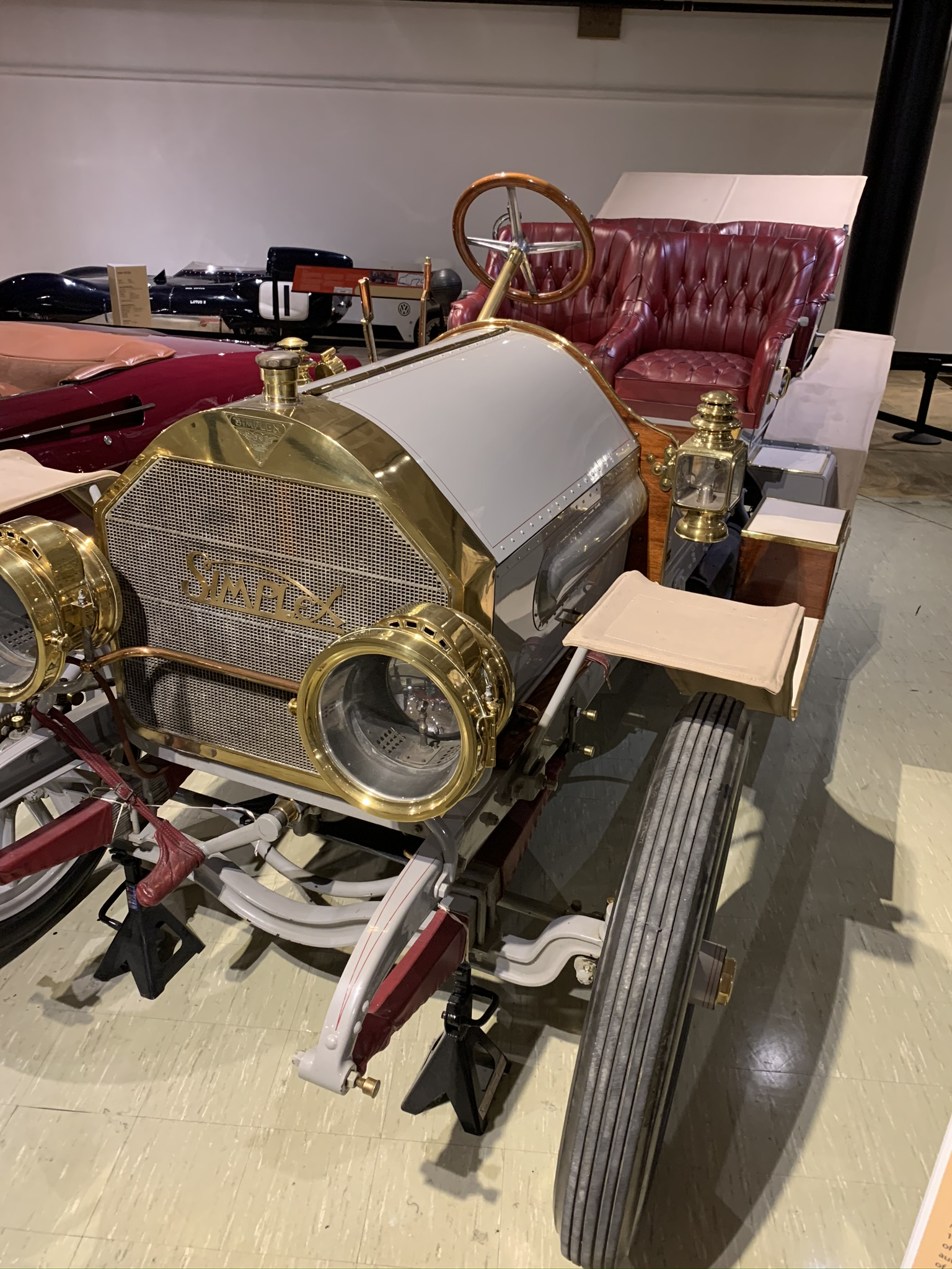 1909 Simplex at Crawford Auto-Aviation Museum